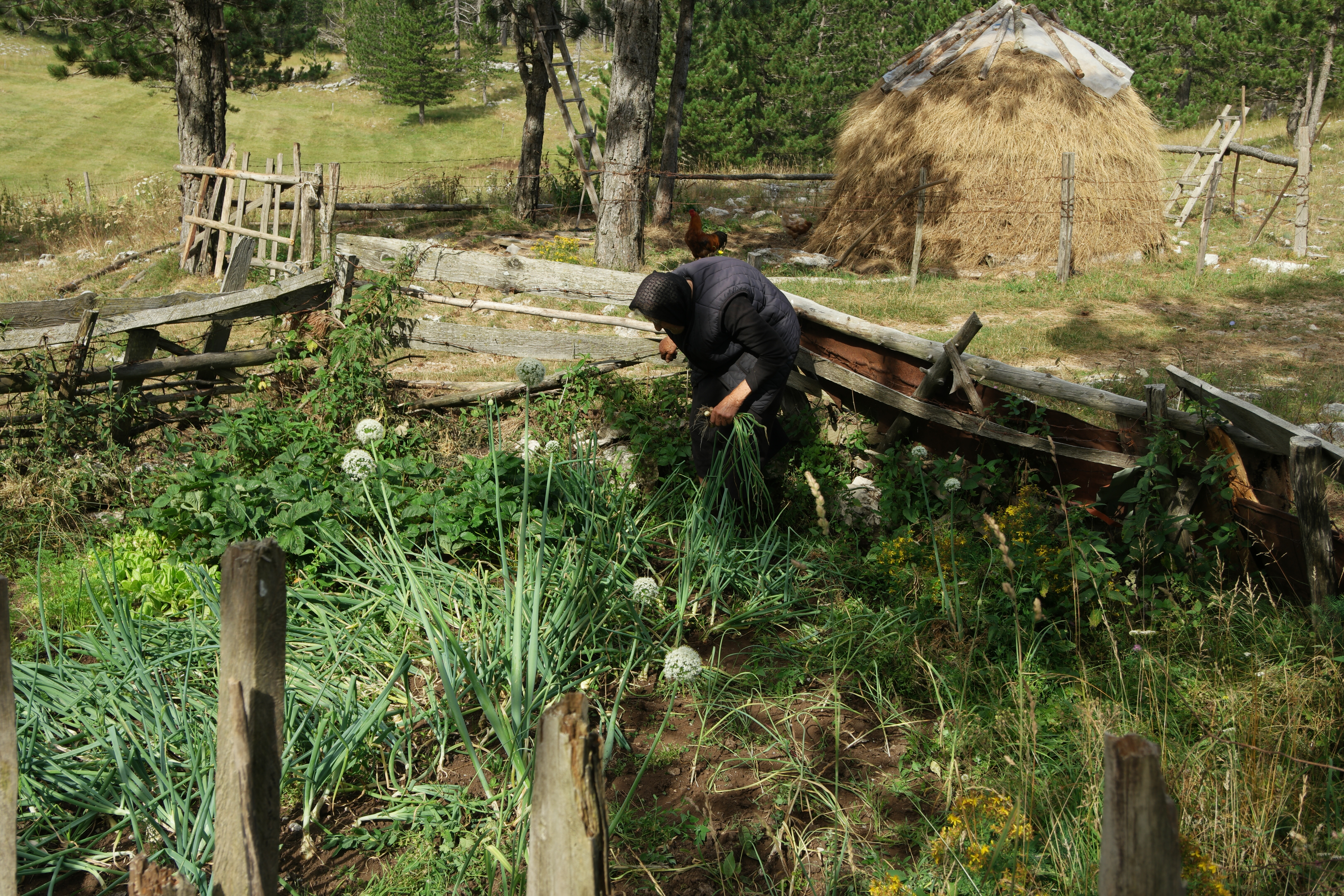 Subsistenz im Orjen, Heu für Buša aus Kalkmagerwisen der Bijela gora